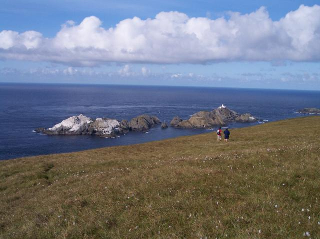 Lower slopes of Hermaness Hill, Unst The most northerly point of the island of Unst looking out to The Skerries (in HP6019).From left to right, which is also from south to north: Vesta Skerry, Rumblings, Tipta Skerry, Muckle Flugga (with the lighthouse), and at the righthand edge of the picture, Out Stack. Some smaller unnamed skerries in between.